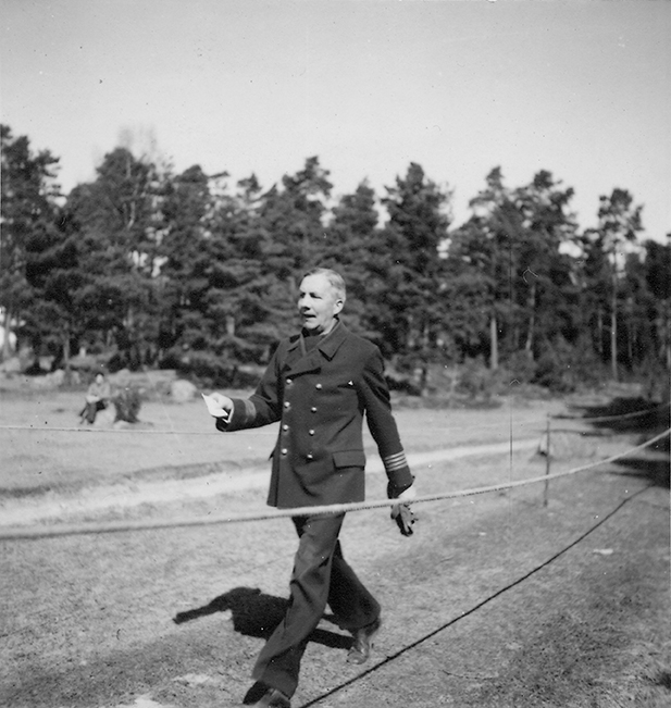 Herman Sundin, chef för Roslagens flygflottilj deltar i Riksmarschen,1940. Tillhör F2-samlingen med nummer F2-40-358. Ur Flygvapenmuseums bildarkiv